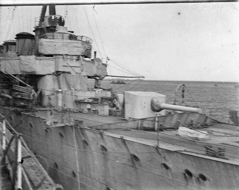 IWM caption : "Title: THE BATTLE OF JUTLAND 31 MAY 1916. The 5.5 inch forecastle gun on board HMS CHESTER. Boy (1st Class) John Travers Cornwell was posthumously awarded the Victoria Cross for remaining at this gun on board the cruiser. The ship was badly shelled by four German cruisers and Cornwell's position was hit four times, killing all the crew apart from Cornwell. The badly wounded boy sailor was taken back to Grimsby where he died on 2 June. Part of the ship's superstructure can be seen in the background."